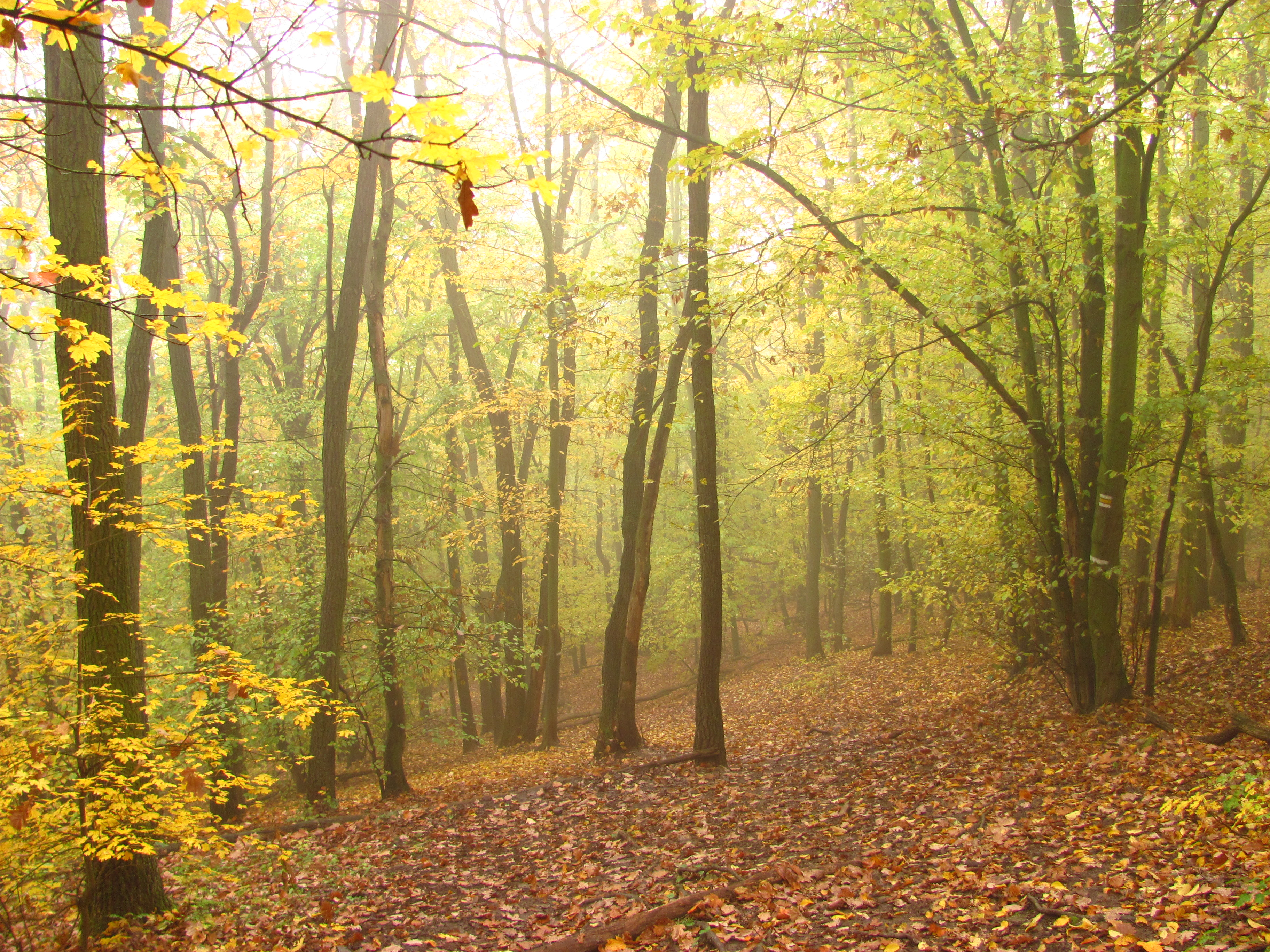 Kotyz_Oak-hornbeams forest